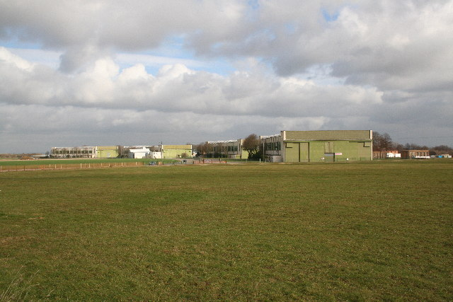 RAF Hemswell. RAF Hemswell opened as a bomber base in 1937 and closed 30 years later in 1967.